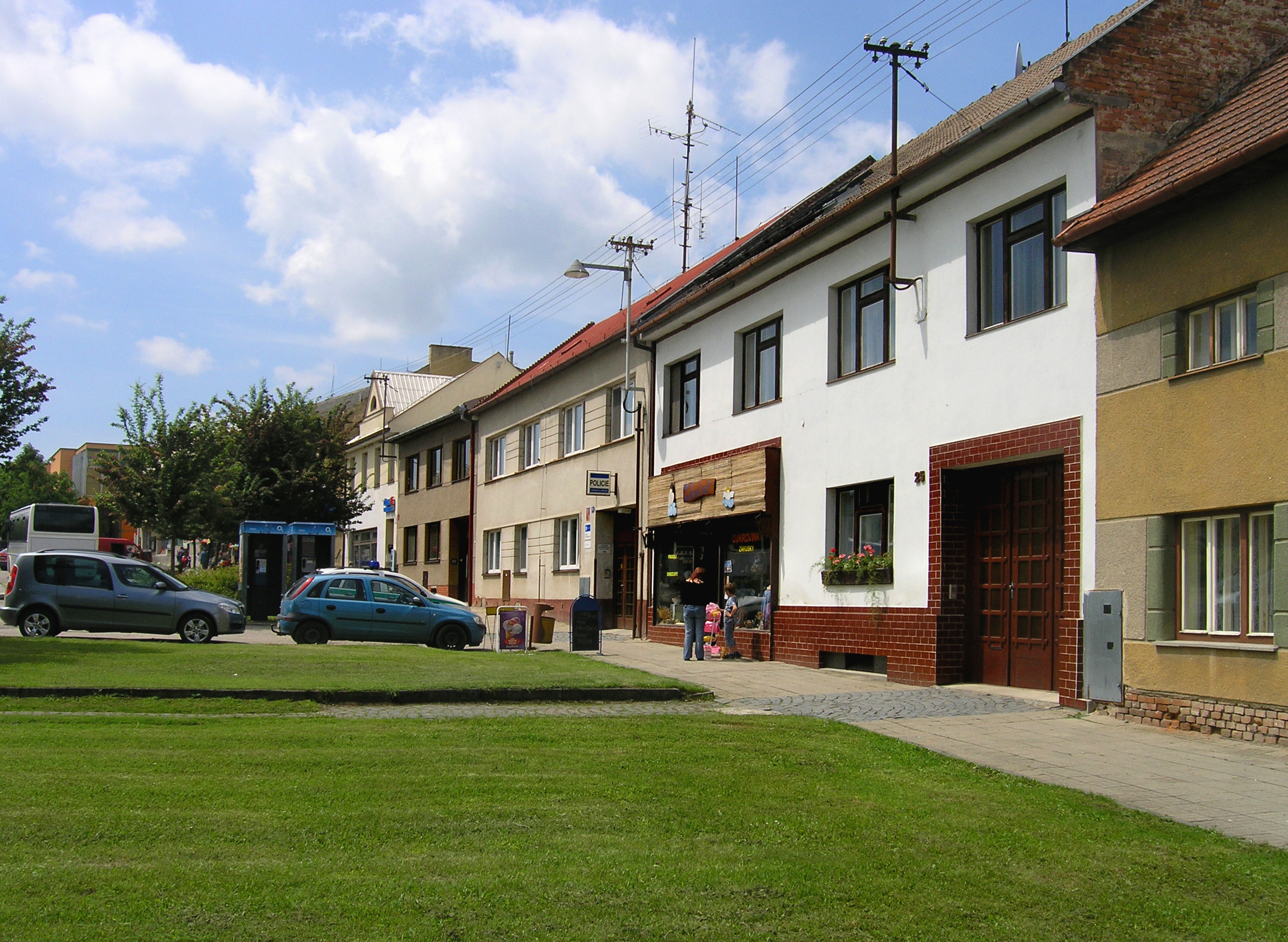 Church in Morkovice-Slížany, Czech Republic